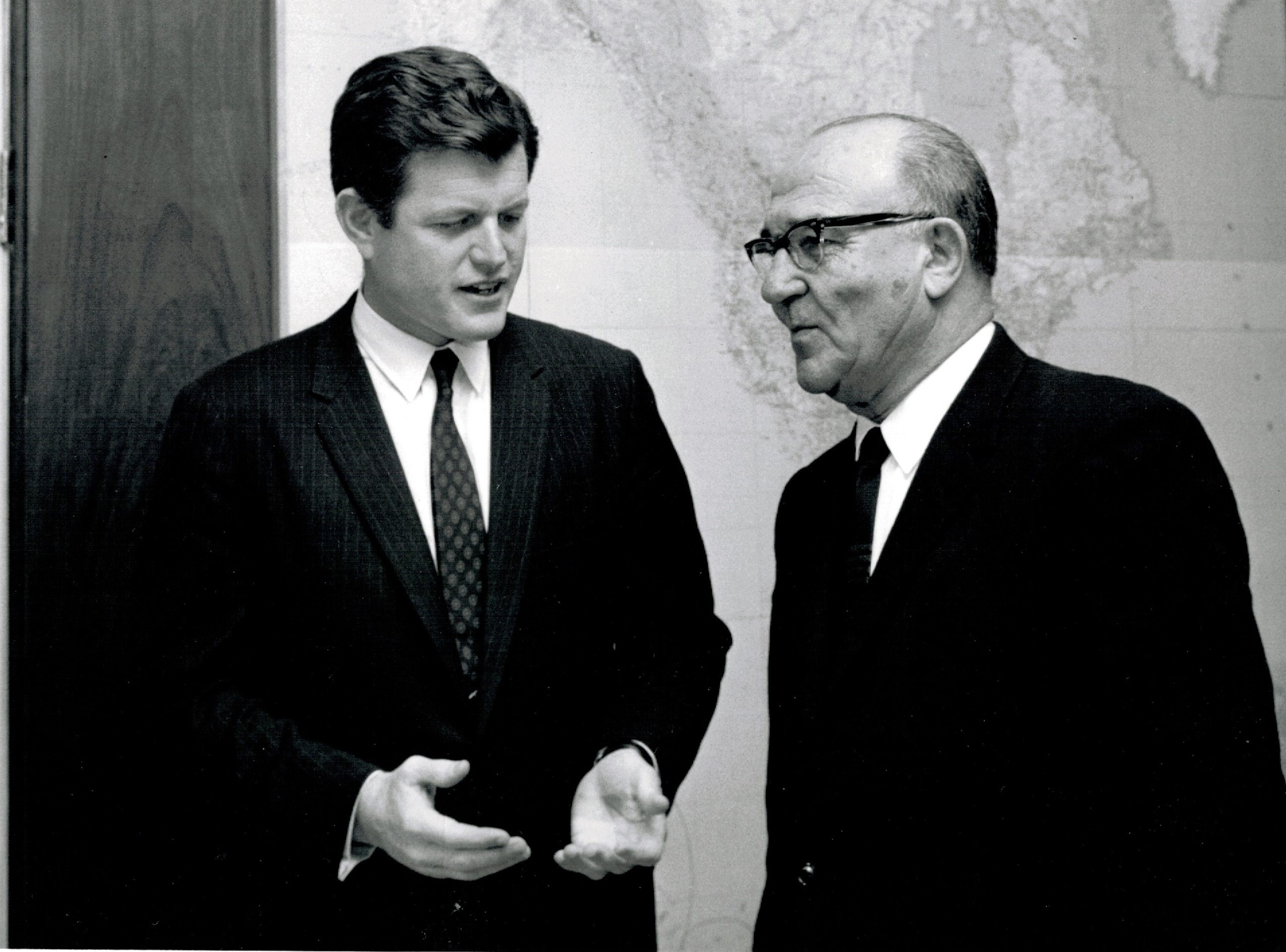 The Prime Minister of Israel Levi Eshkol at his office greeting Senator Ted Kennedy, November 2, '66.